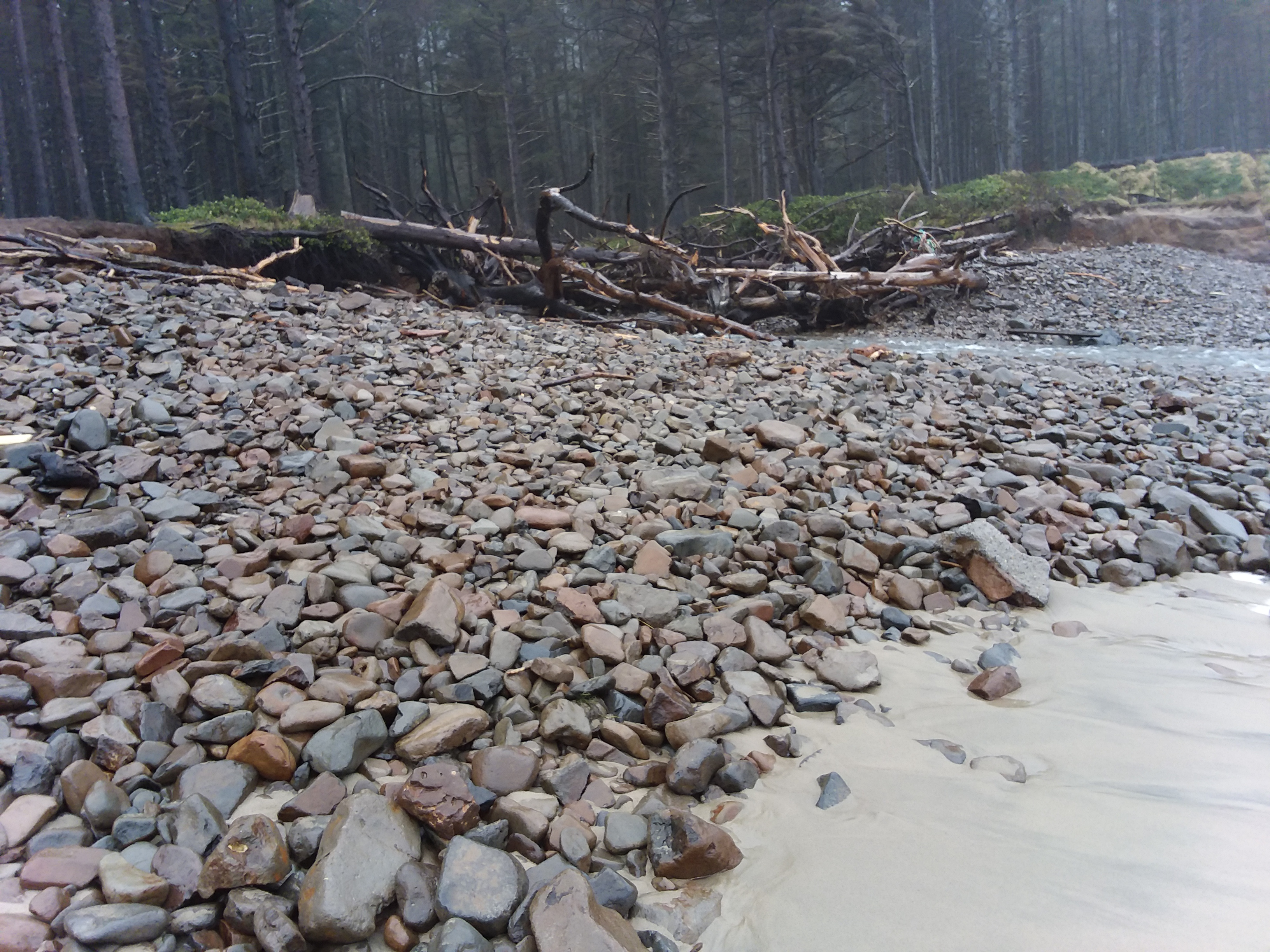 Cape Lookout dynamic revetment 2020